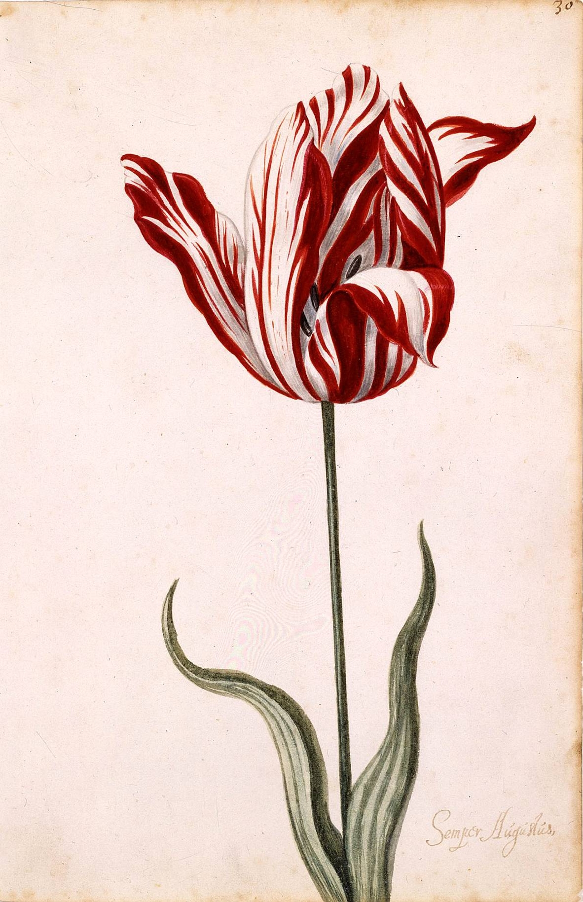 This is a picture of the Semper Augustus. This tulip is famous for being the most expensive tulip sold during the tulipomania in the netherlands in the 17th century.